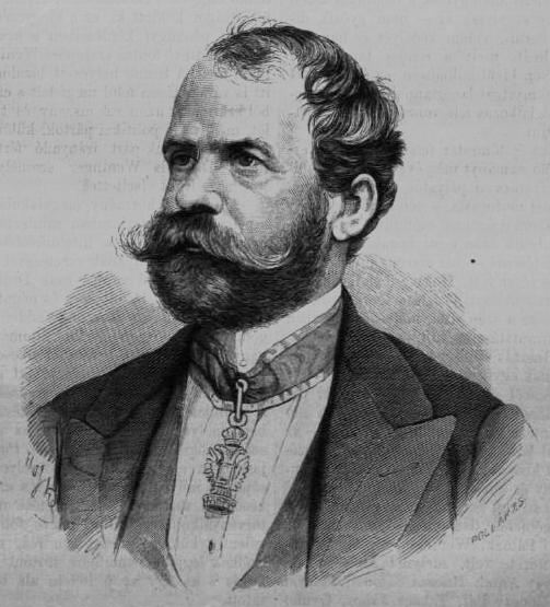 Portrait of Vince Weninger